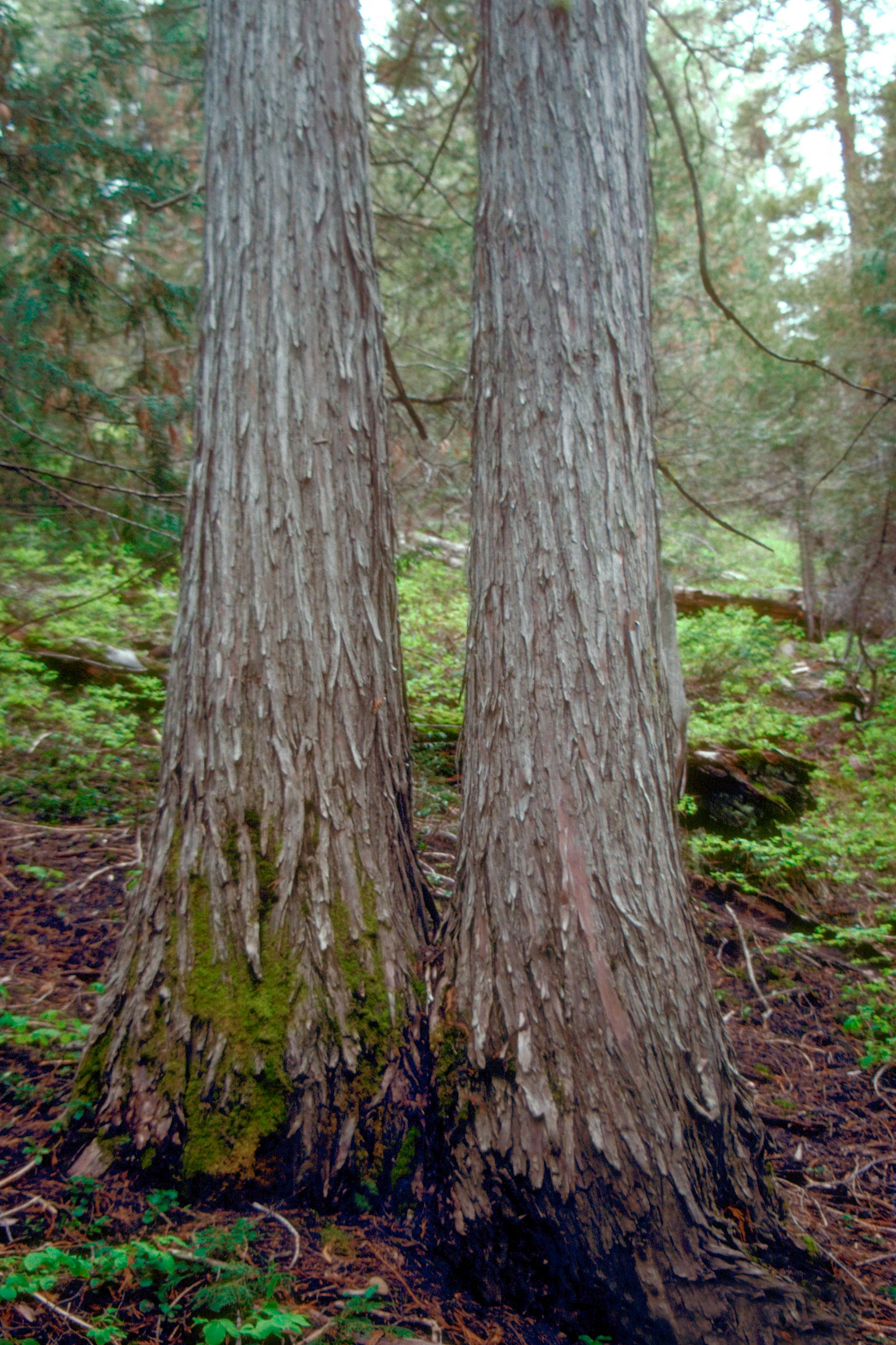 Cupressus nootkatensis trunks showing bark of mature trees. Cedar Grove Botanical Area, Aldrich Mountains, Malheur National Forest, Grant County, Oregon.